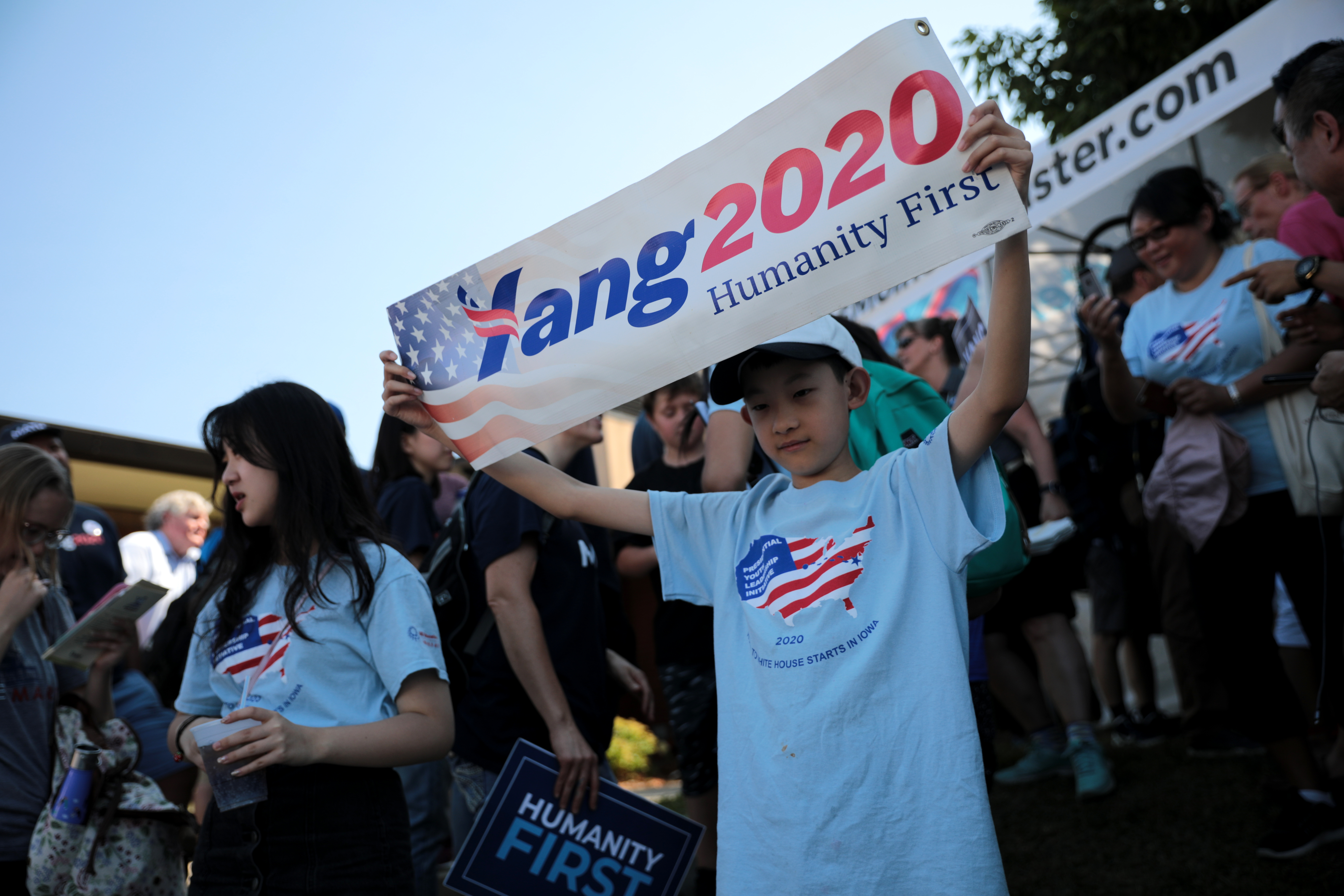 Supporters of Andrew Yang at the Des Moines Register's Political Soapbox at the 2019 Iowa State Fair in Des Moines, Iowa.